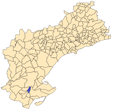 Masdenverge